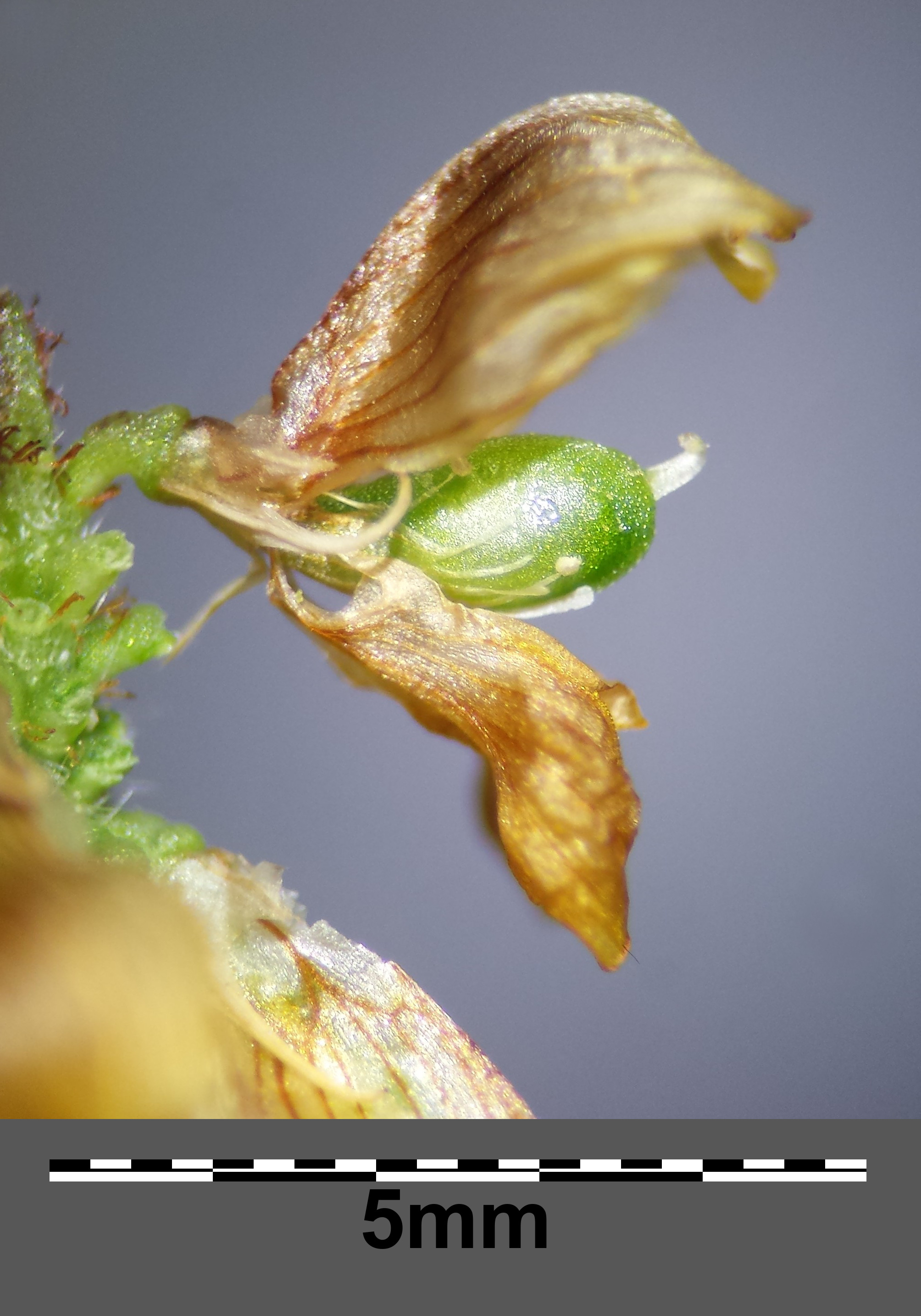 Flower opened with ovary and stylus Taxonym: Trifolium campestre ss Fischer et al. EfÖLS 2008 ISBN 978-3-85474-187-9 Location: Neue Donau, Vienna-Floridsdorf - ca. 160 m a.s.l. Habitat: dry meadows